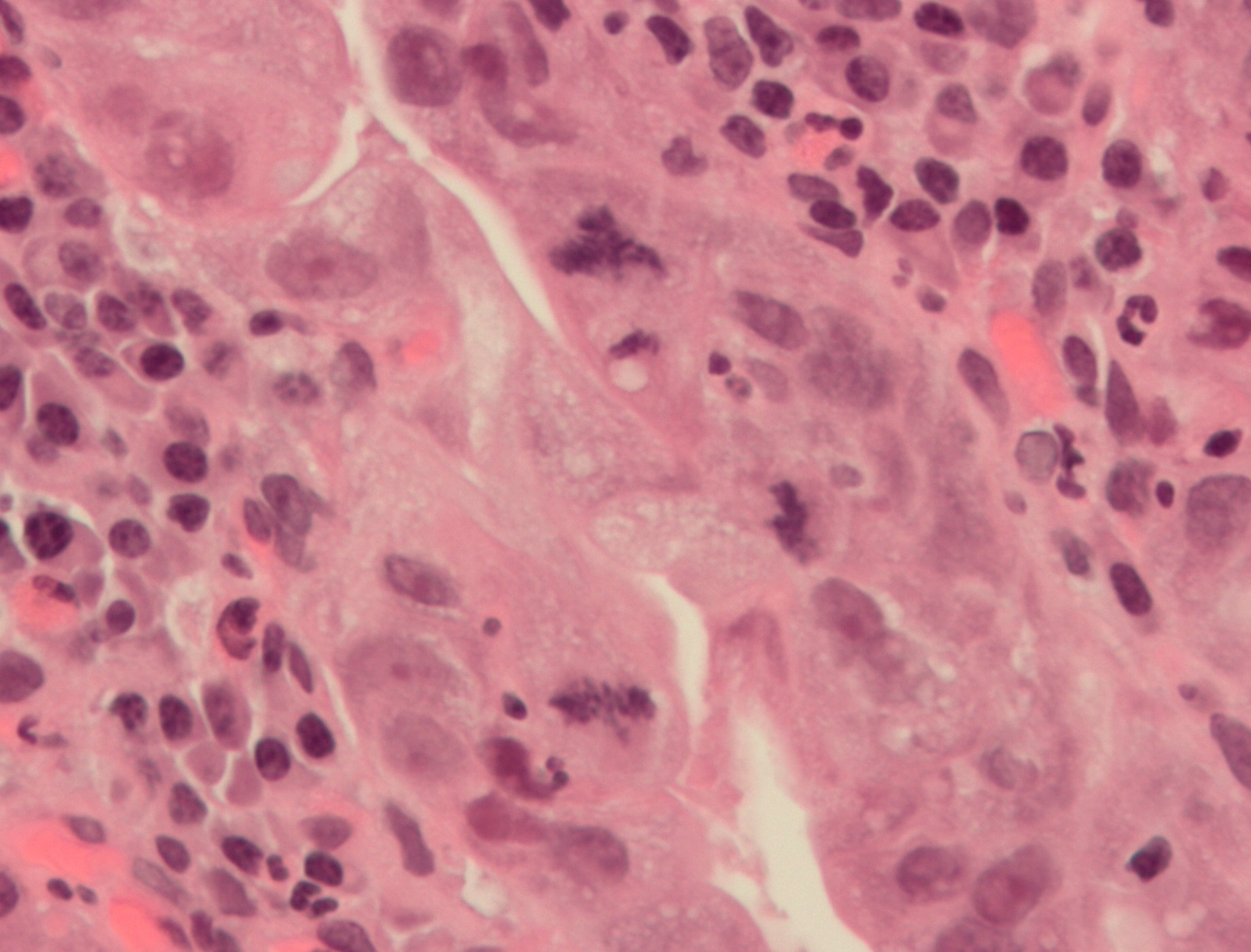 Stomach cancer precursor lesion. Micrograph of gastric mucosa with high grade dysplasia. H&E stain. Three clearly identifiable mitoses are seen. The one at the 12:00 o'clock position is tripolar, i.e. atypical. The mitoses at 3:00 o'clock and 6:00 o'clock are normal. Acute (neutrophils) and chronic (plasma cells, lymphocytes) inflammatory cells are in the lamina propria immediately underneath of the dysplastic epithelium. Atypical mitoses are a characteristic of precancerous lesions, i.e. dysplasia, and malignancy, i.e. cancer.